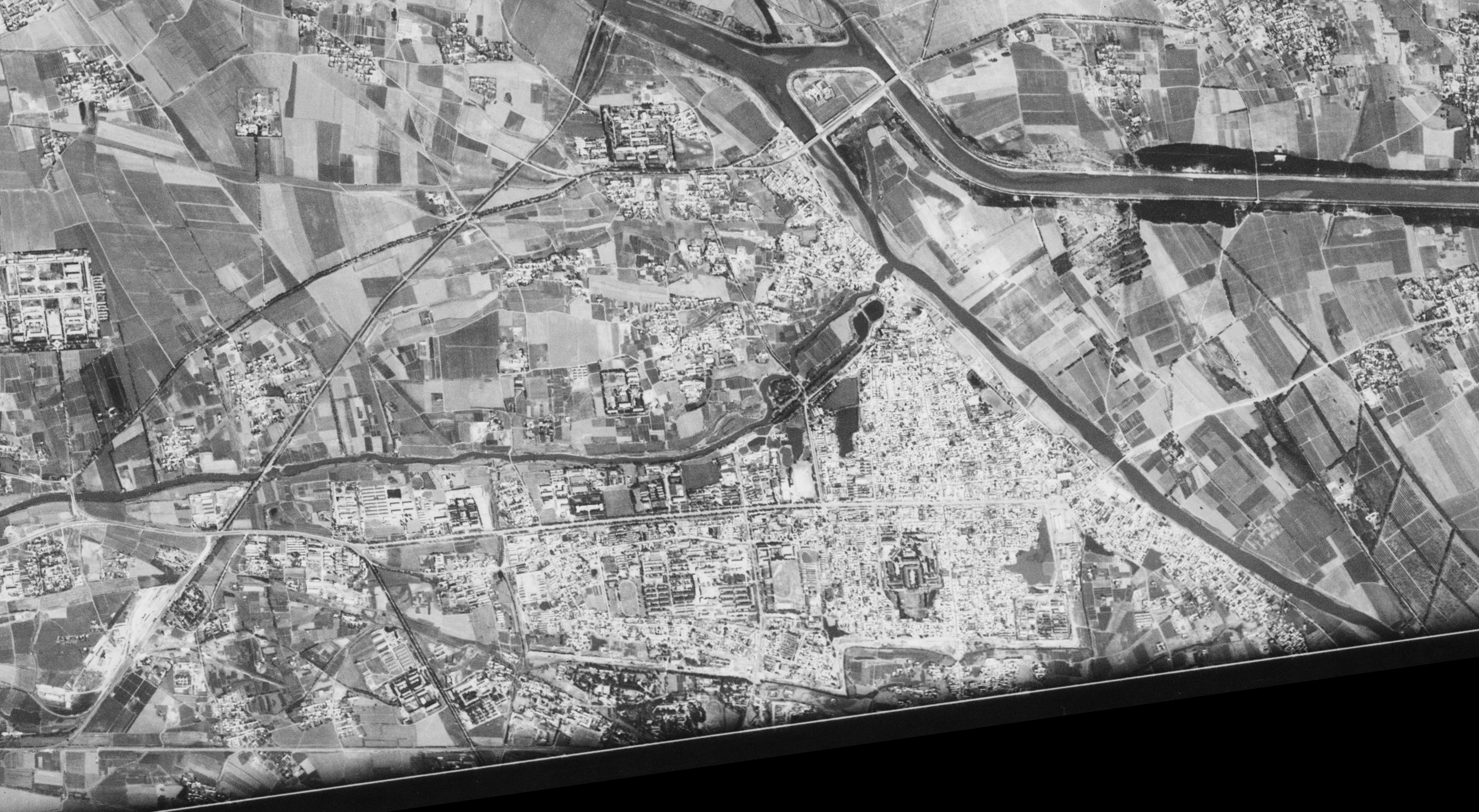 Middle of Tongzhou District, Beijing. Spatial tentatively corrected. 中文（中国大陆）: 北京市通州区中部。空间上尝试性矫正过。